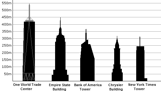 Comparison of skyscrapers in New York